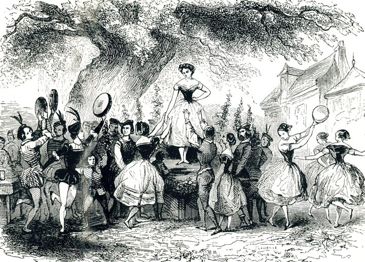 Illustration from Giselle 1845